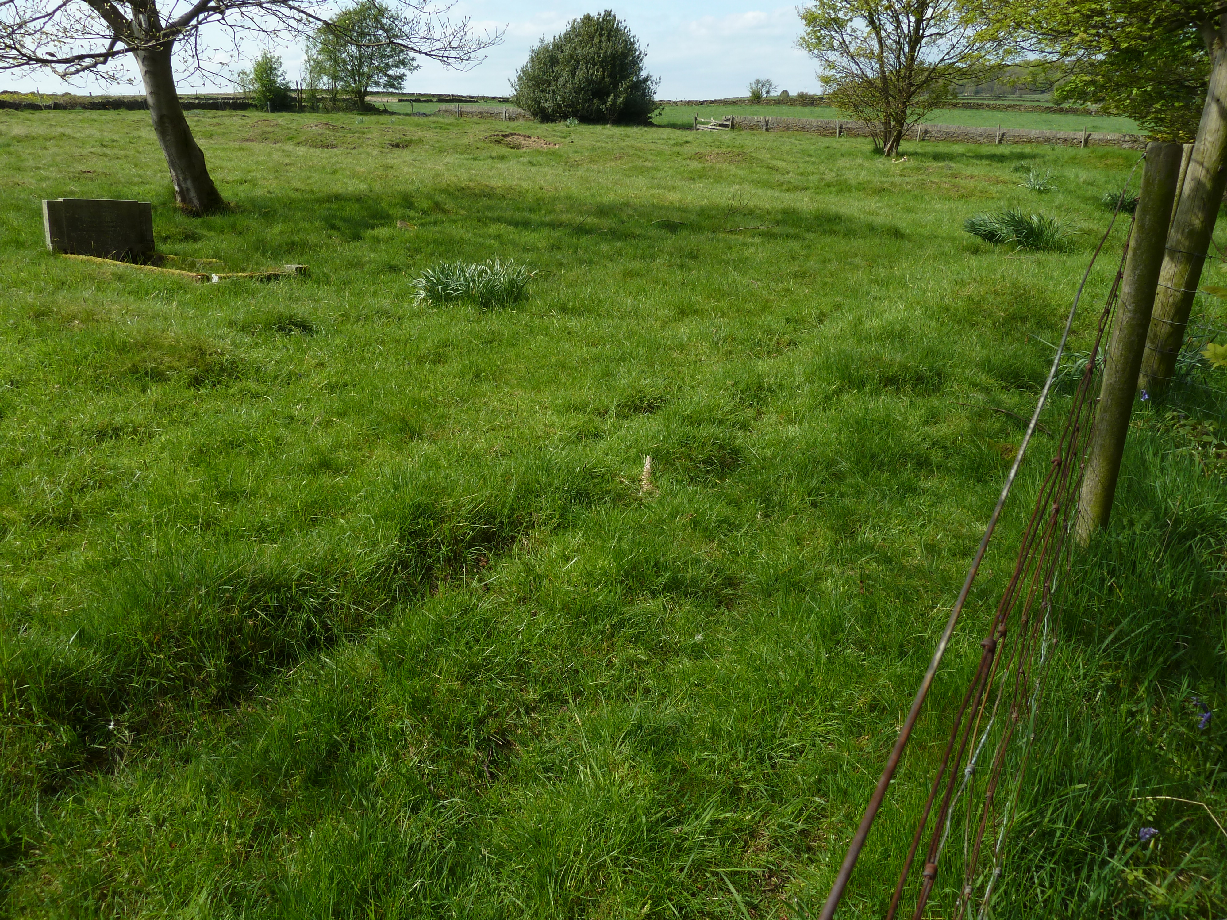 Graveyard attached to Church of St Thomas, Thurstonland, Huddersfield, West Yorkshire, England. The church was built 1870, designed by James Mallinson and William Swinden Barber. In this field, in unmarked graves, lie thousands of patients from Storthes Hall Hospital, which was a psychiatric hospital 1904-1991.